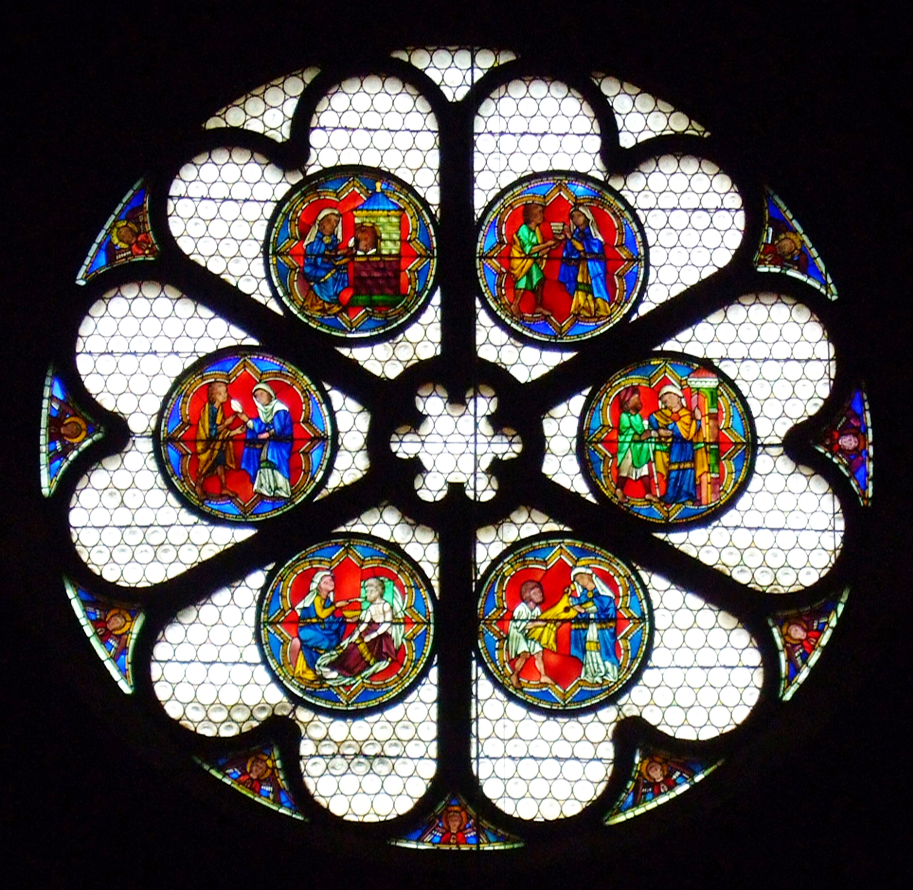 Stained glass window dating to ca. 1230-50 in the northern wall of the Romanesque transept of the Freiburg Minster, showing the six (Corporal) Works of Mercy: to feed the hungry, to give water to the thirsty, to clothe the naked, to shelter the homeless, to visit the sick, to visit the imprisoned (or ransom the captive).